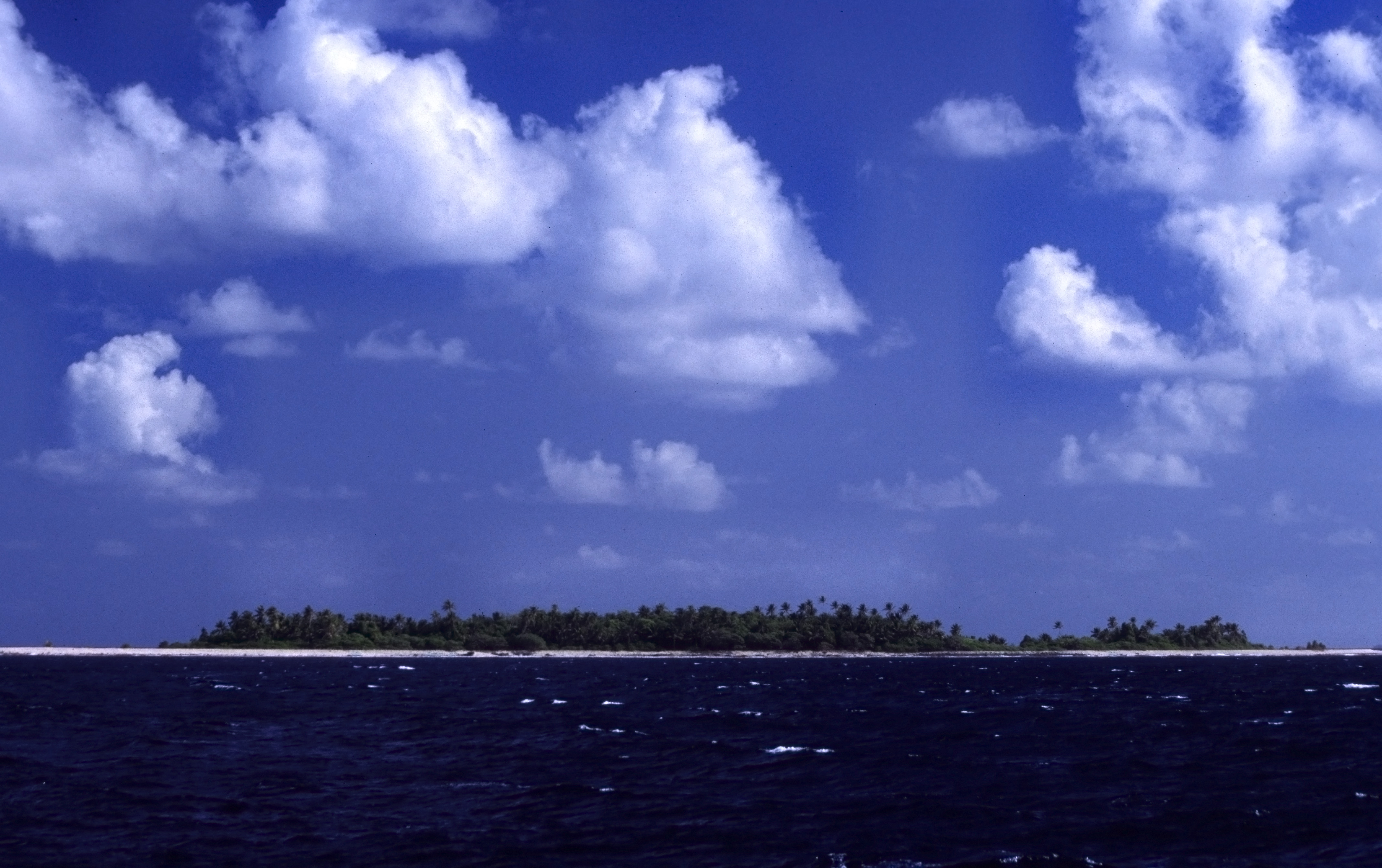 Approaching the Funafuti atoll of Tuvalu.